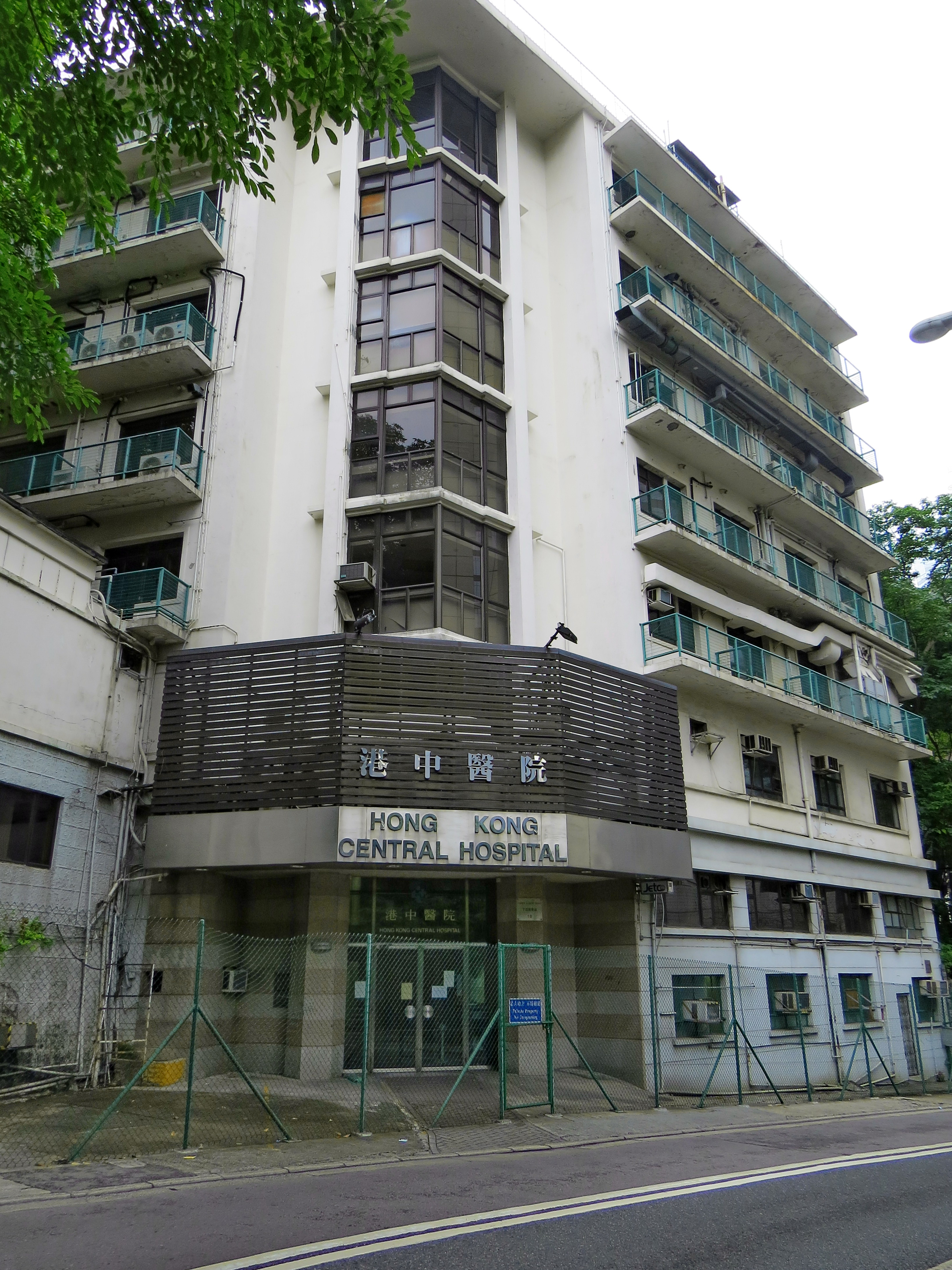 Hong Kong Central Hospital, One Lower Albert Road, Central District, Hong Kong. (closed on September 1, 2012.)